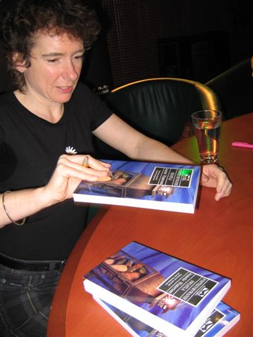 Jeanette Winterson (b.1959), British writer